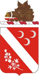 US 7th Field Artillery Regiment Coat of Arms. Contents 1 Blazon 2 Symbolism 3 Licensing 4 Original upload log Blazon Shield: Gules, a bend Argent, in chief three increscents, two and one of the last; in base a seven blossom Lupinus Texensis of the second. Crest: On a wreath of the colors Argent and Gules, a boar's head erased Proper. Motto: NUNQUAM AERUMNA NEC PROEILO FRACTUM (Never Broken by Hardship or Battle). Symbolism The shield is scarlet for Artillery. The three silver increscents are taken from the arms of Luneville where the Regiment received its baptism of fire. The seven blossom Lupinus Texensis (Blue Bonnet), the state flower of Texas, denoted the birthplace of the Regiment and its numerical designation in the Field Artillery regiments of the United States Army. The boar's head, upon the crest, in its natural colors, is indicative of Regimental hospitality. The motto is taken from a citation in France by Marshal Foch, to the entire 1st Division, of which the 7th Field Artillery was a part, in which he states "Never Broken by Hardship or Battle." Image and text provided by the US Army Institute of Heraldry, on their website at .